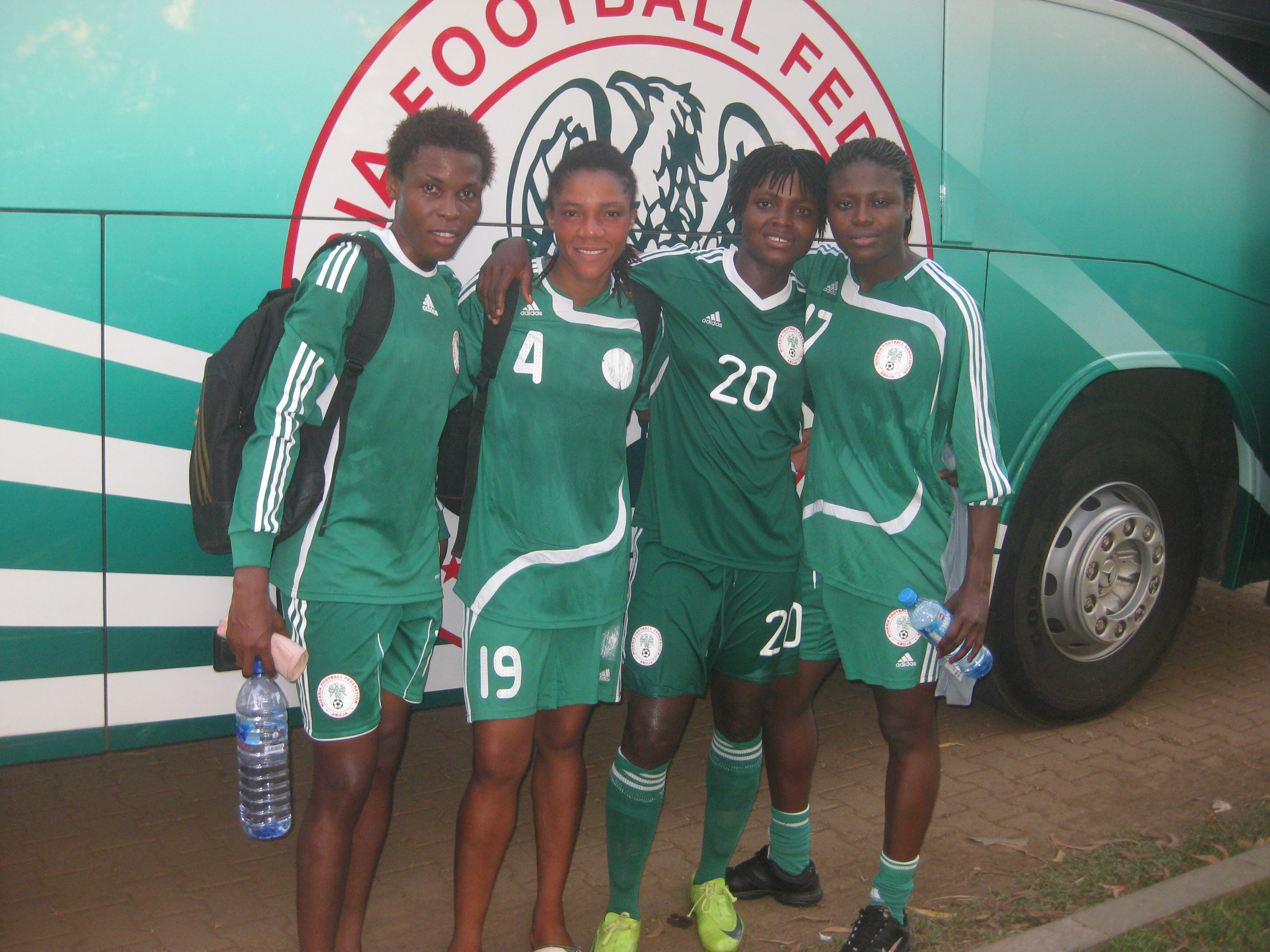 After training with my team mates in the National Camp Super Falcon in Abuja Nigeria